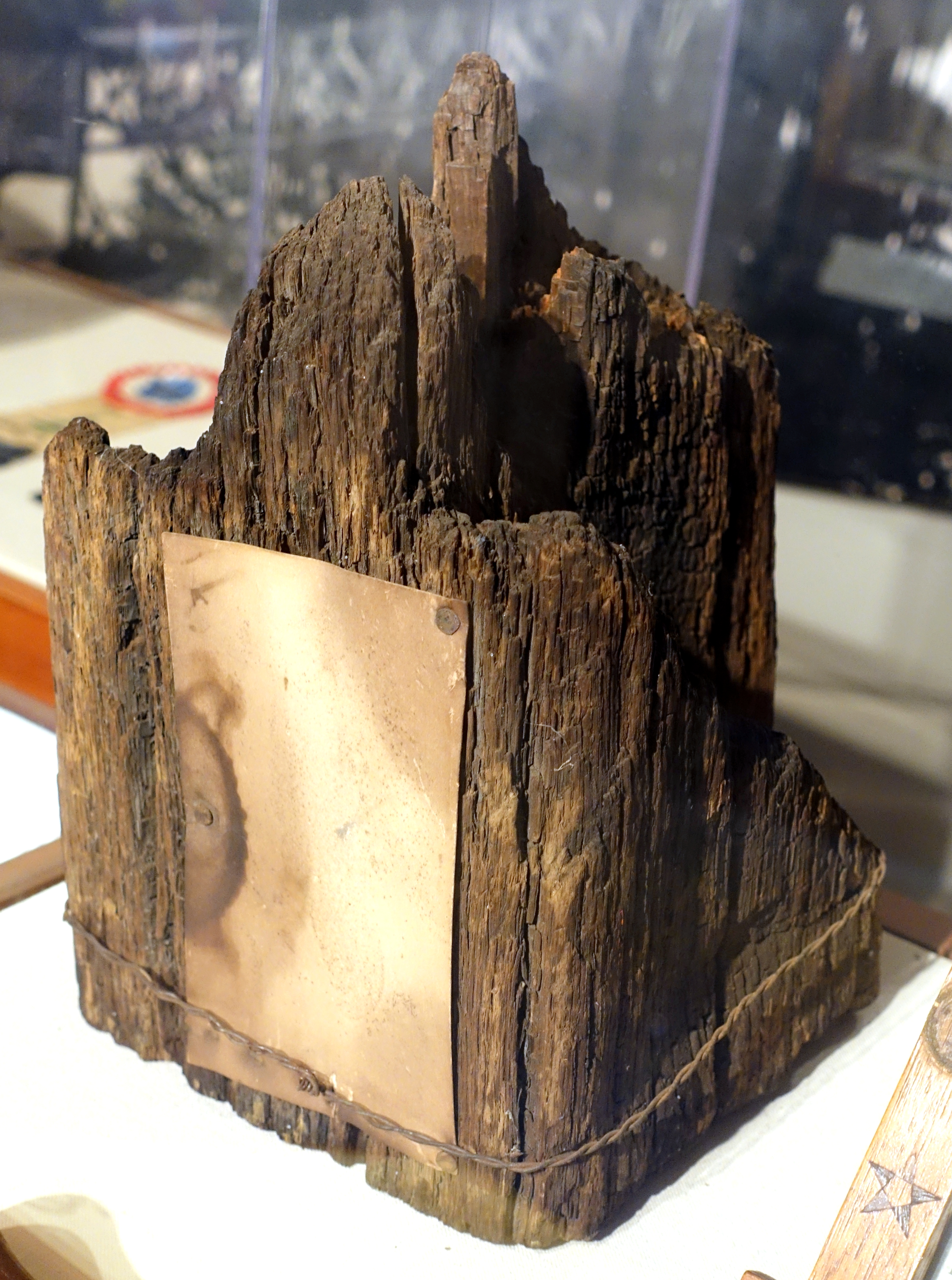 Exhibit in the Concord Museum, Concord, Massachusetts, USA.